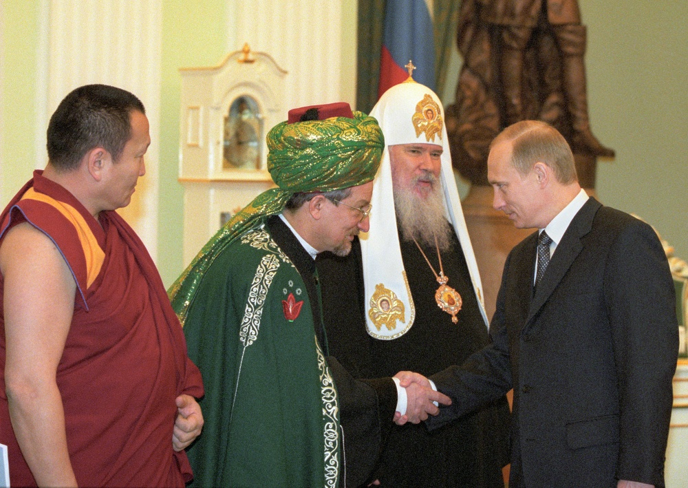 THE KREMLIN, MOSCOW. A meeting with members of the Board of Guardians of the All-Russian National Military Fund. Left to right: Pandito Hambo Lama Damba Ayusheyev, Head of Buddhist Traditional Sangha of Russia; Supreme Mufti Sheikh-ul-Islam Talgat Tajuddin, Chairman of the Central Muslim Board of Russia; and Patriarch of Moscow and All Russia Alexy II.